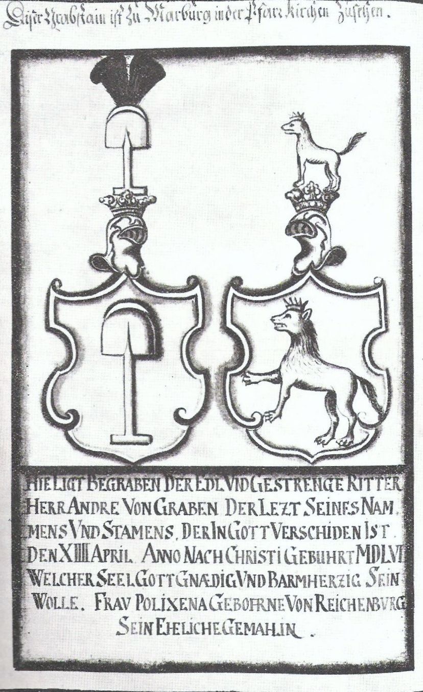 Andree von Graben